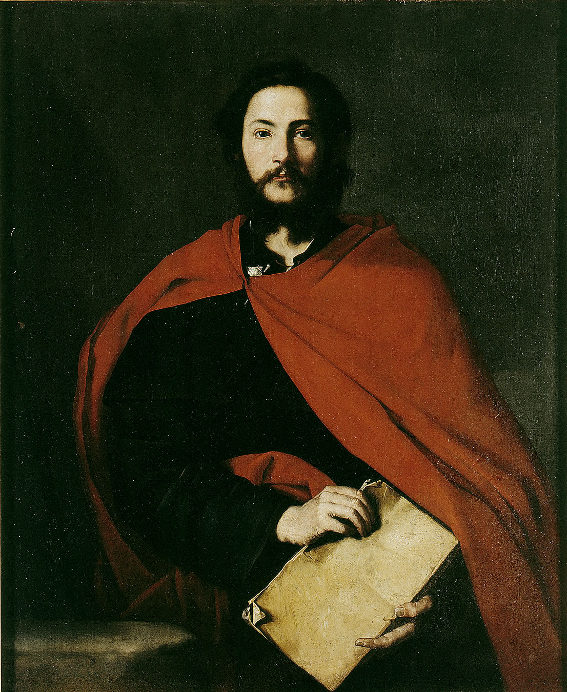 Saint James the Great